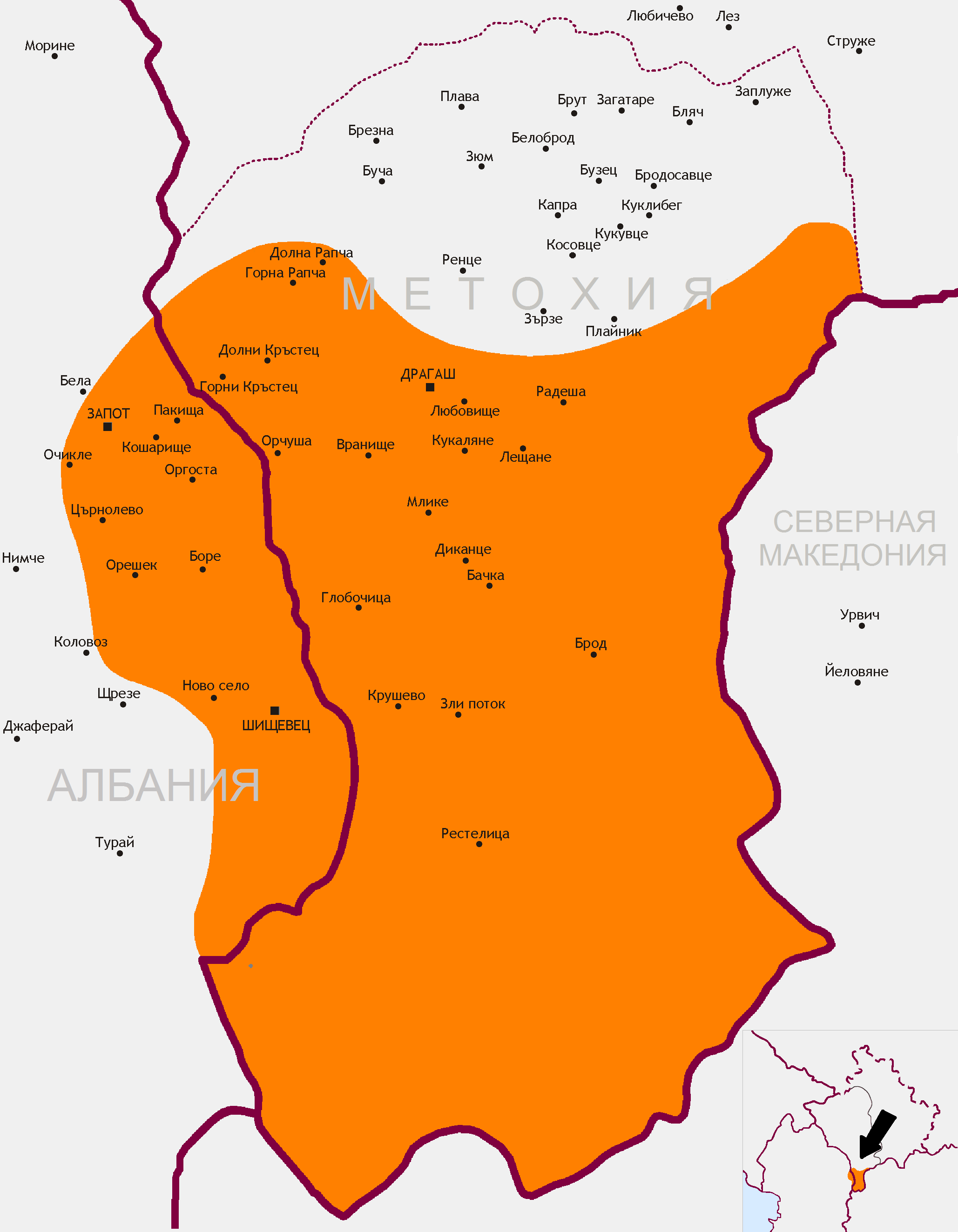 Gora Region, Metohia